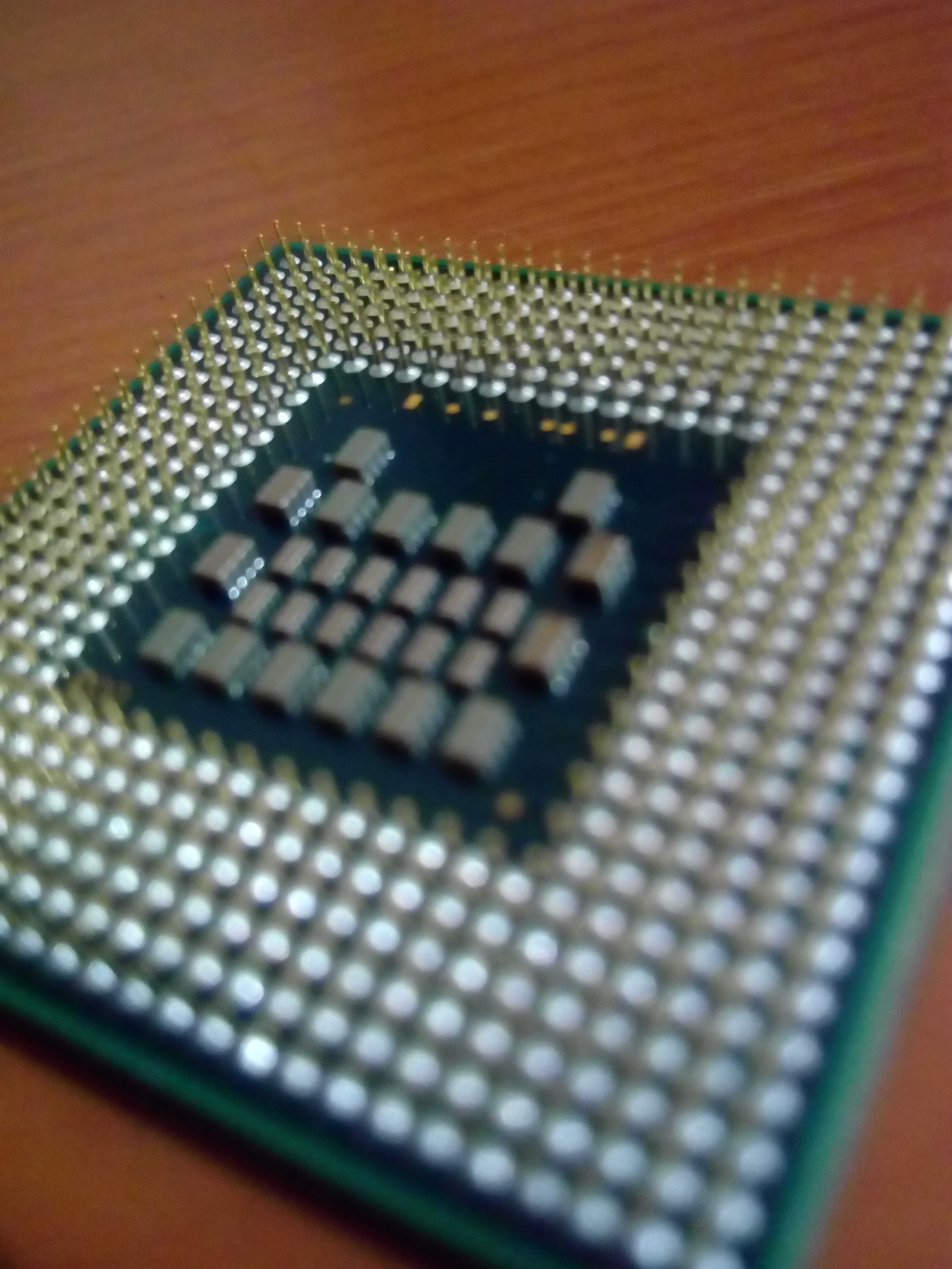 Central processing unit.